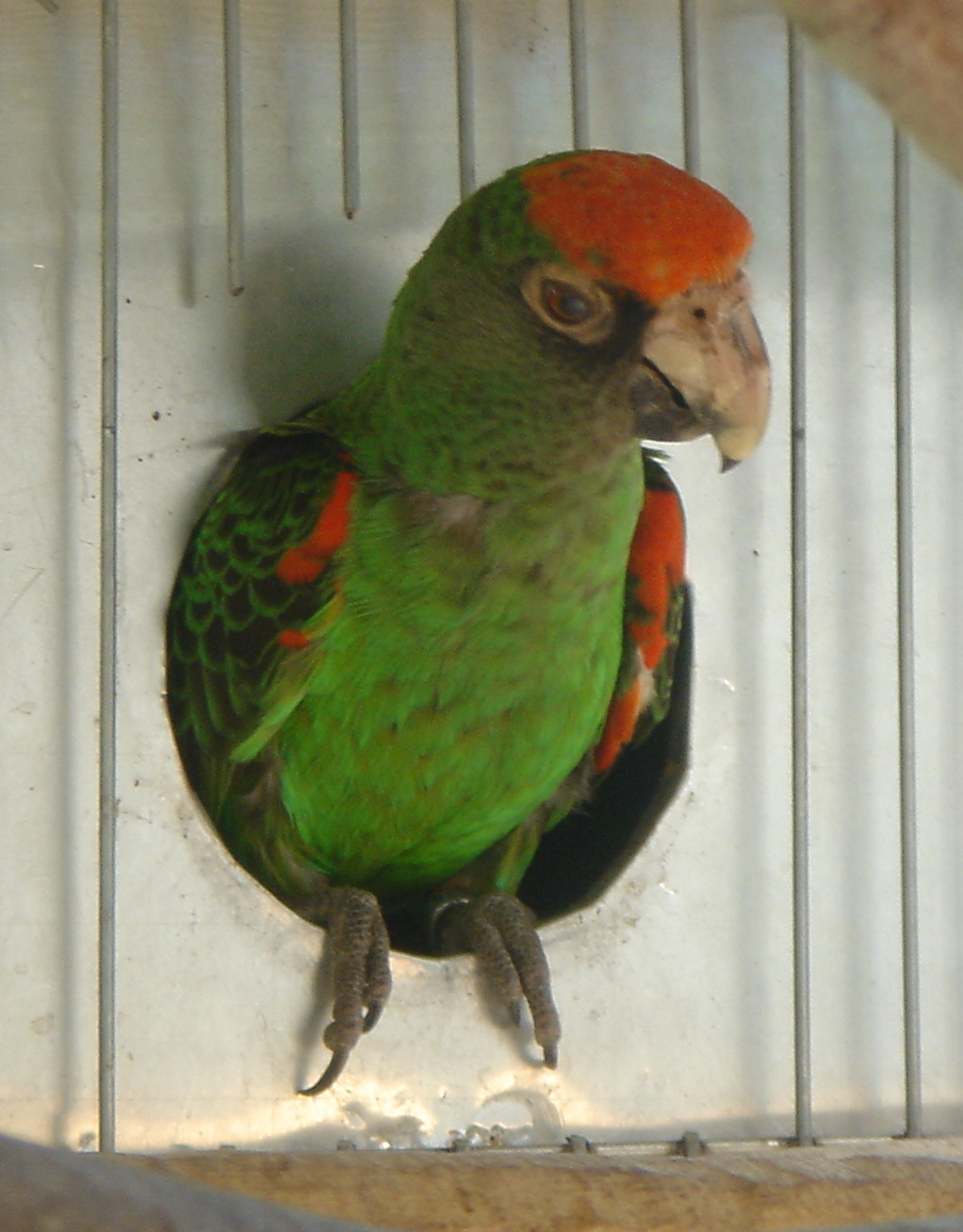 A male Jardine's Parrot (Poicephalus gulielmi) leaving the nest.